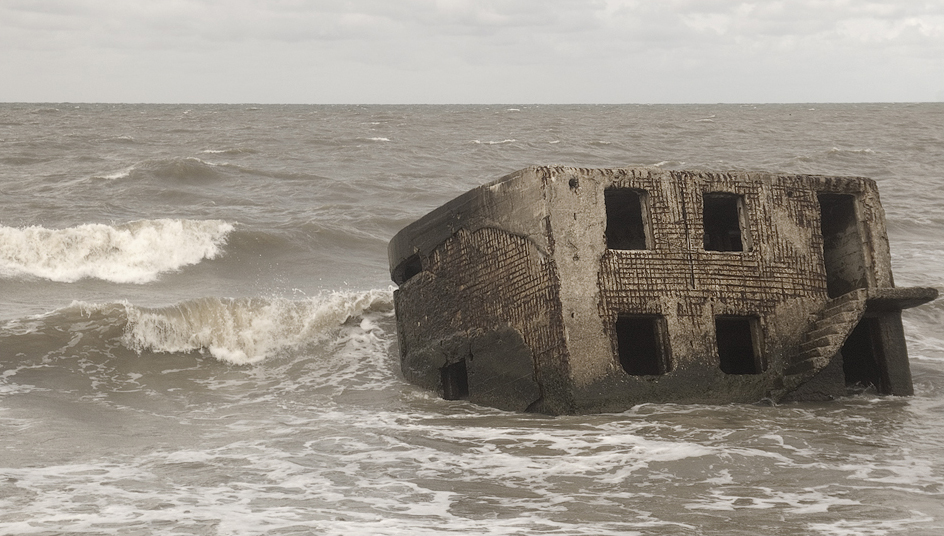 Fort built between 1893 and 1906 at the beach of Karosta near Liepaja in Latvia, processed in Adobe Photoshop